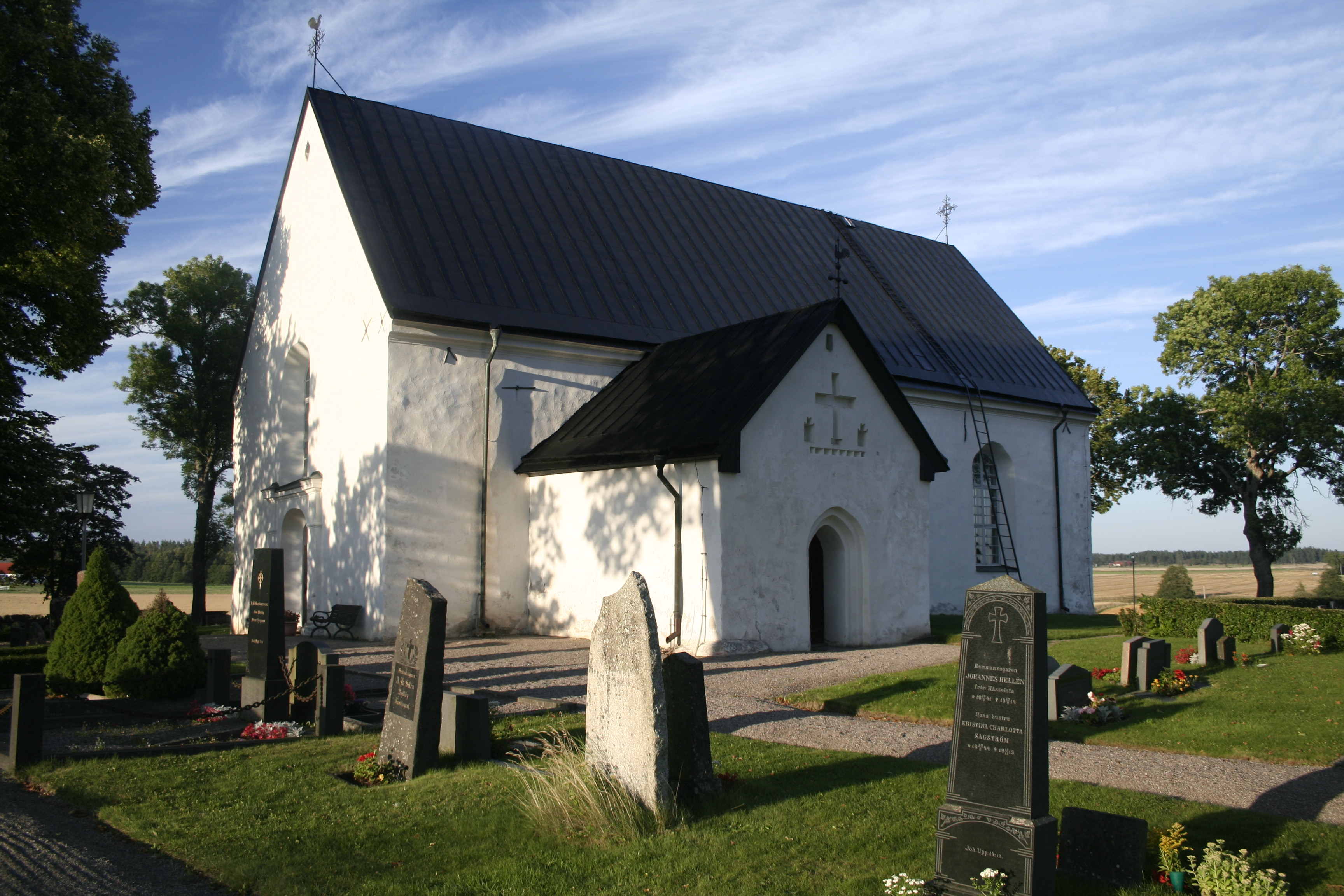 Österunda church, Uppland, Sweden